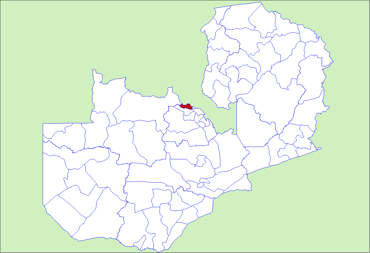 District locator in Zambia